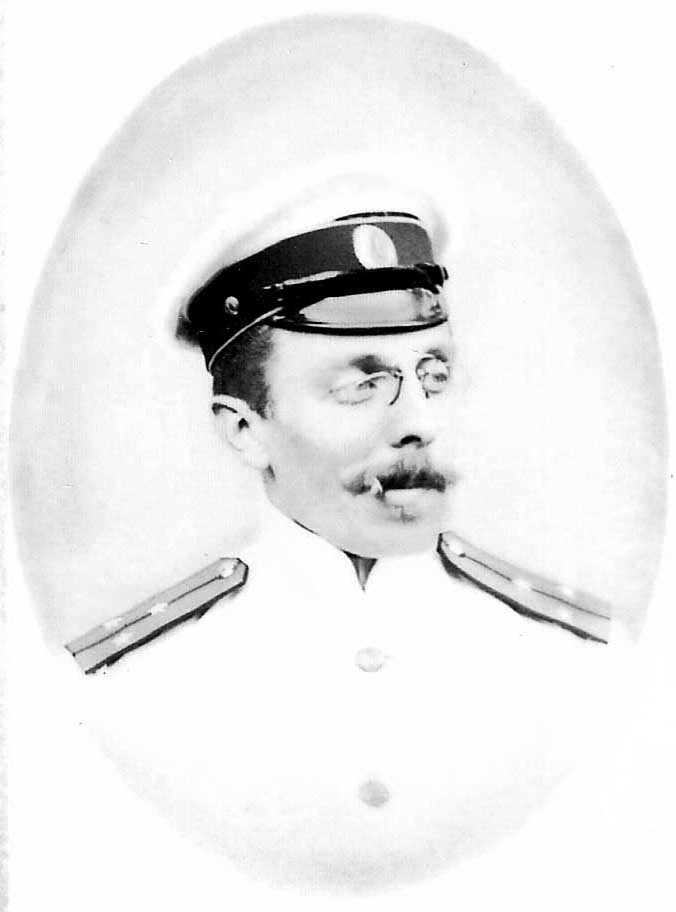 Baron Roman Lipgart